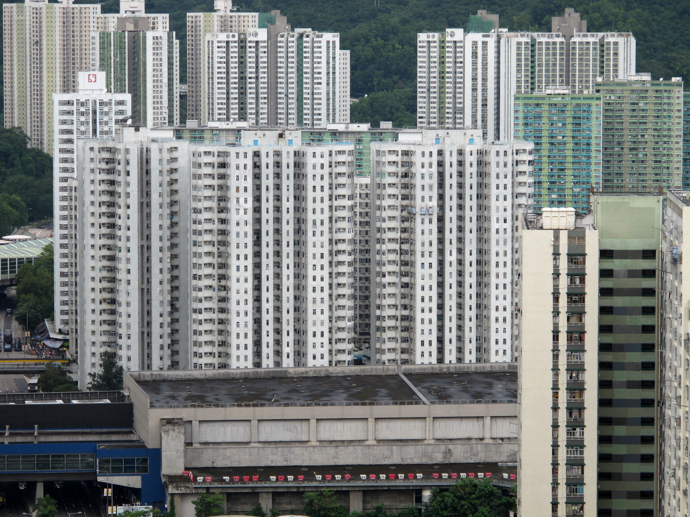 Grandway Garden, Tai Wai